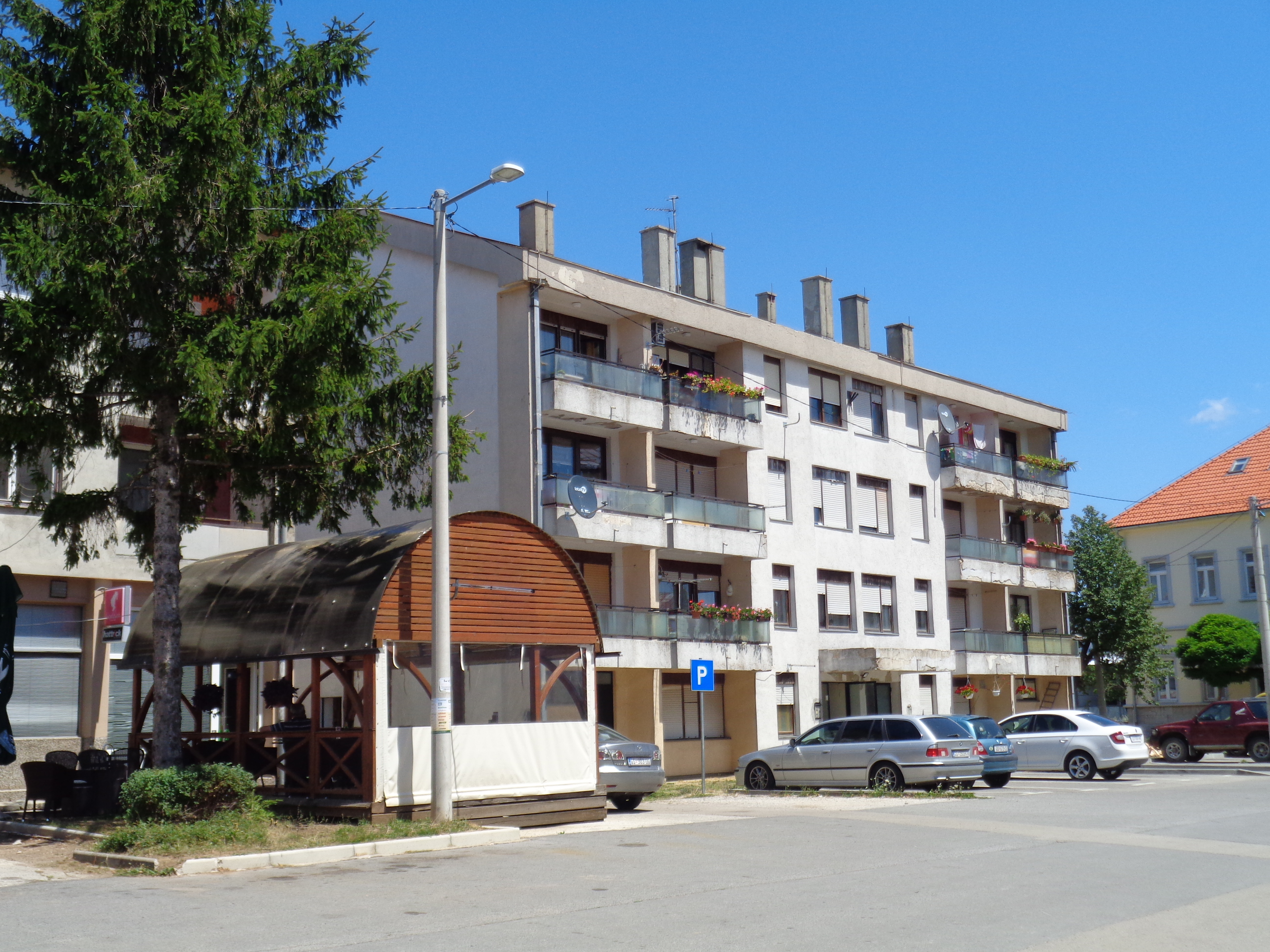 Udbina Municipality, Lika-Senj County, Croatia (1.)